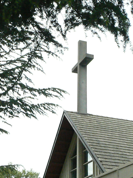 St. Paul's Episcopal Church view of cross on the church building built in 1954